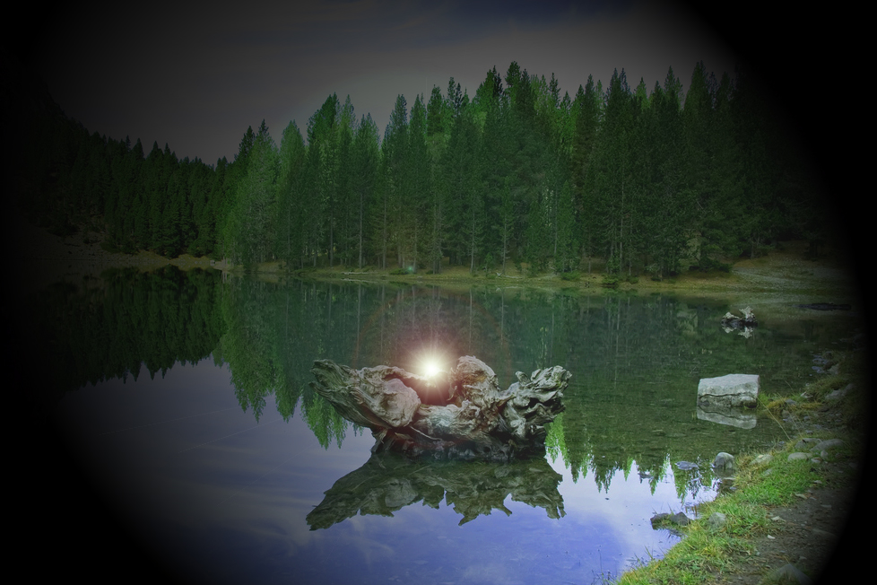 Version by Willtron